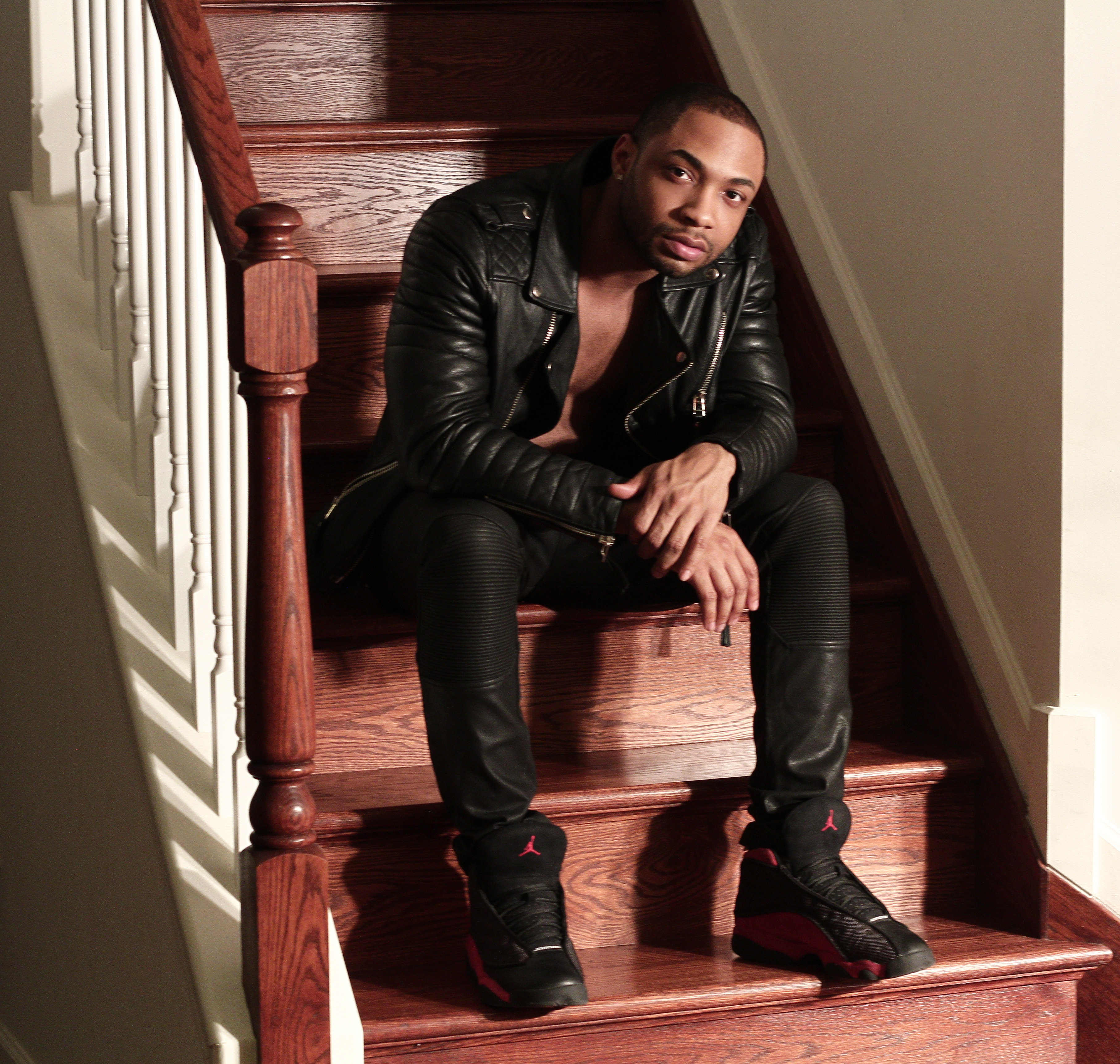 All Black